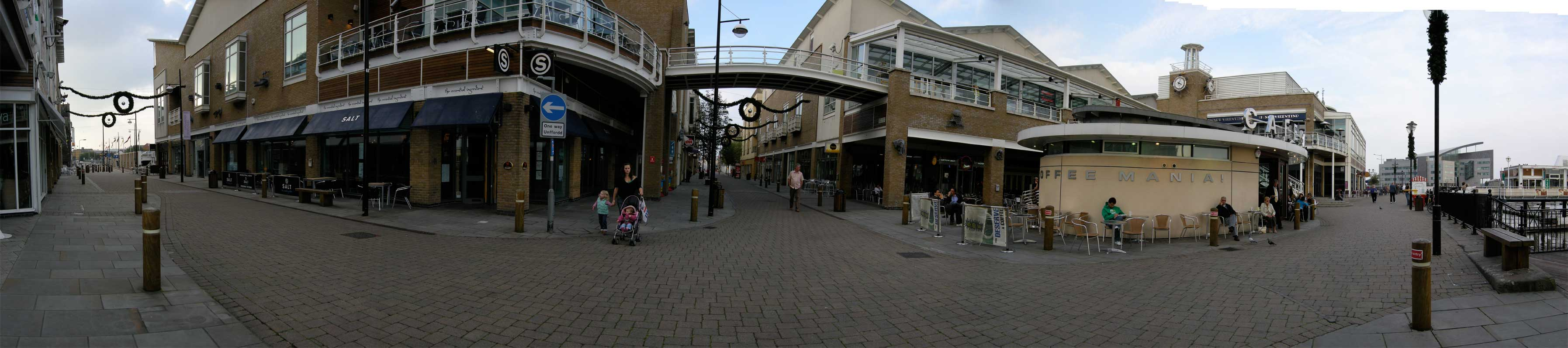 Panorama of Mermaid Quay, Cardiff Bay, Cardiff, Wales